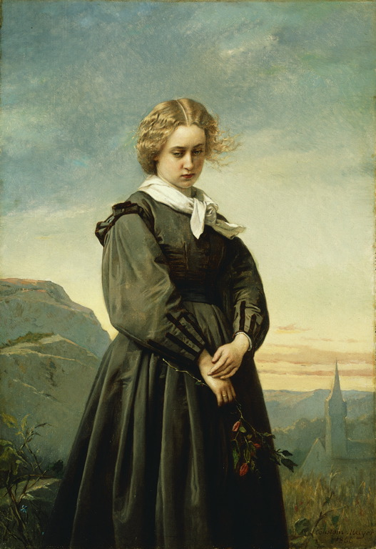 “Love's Melancholy” (oil on canvas)